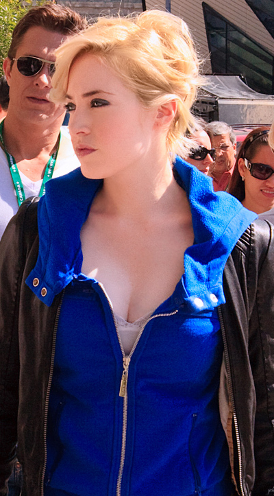 Charlotte Sullivan at the 2009 Toronto International Film Festival.